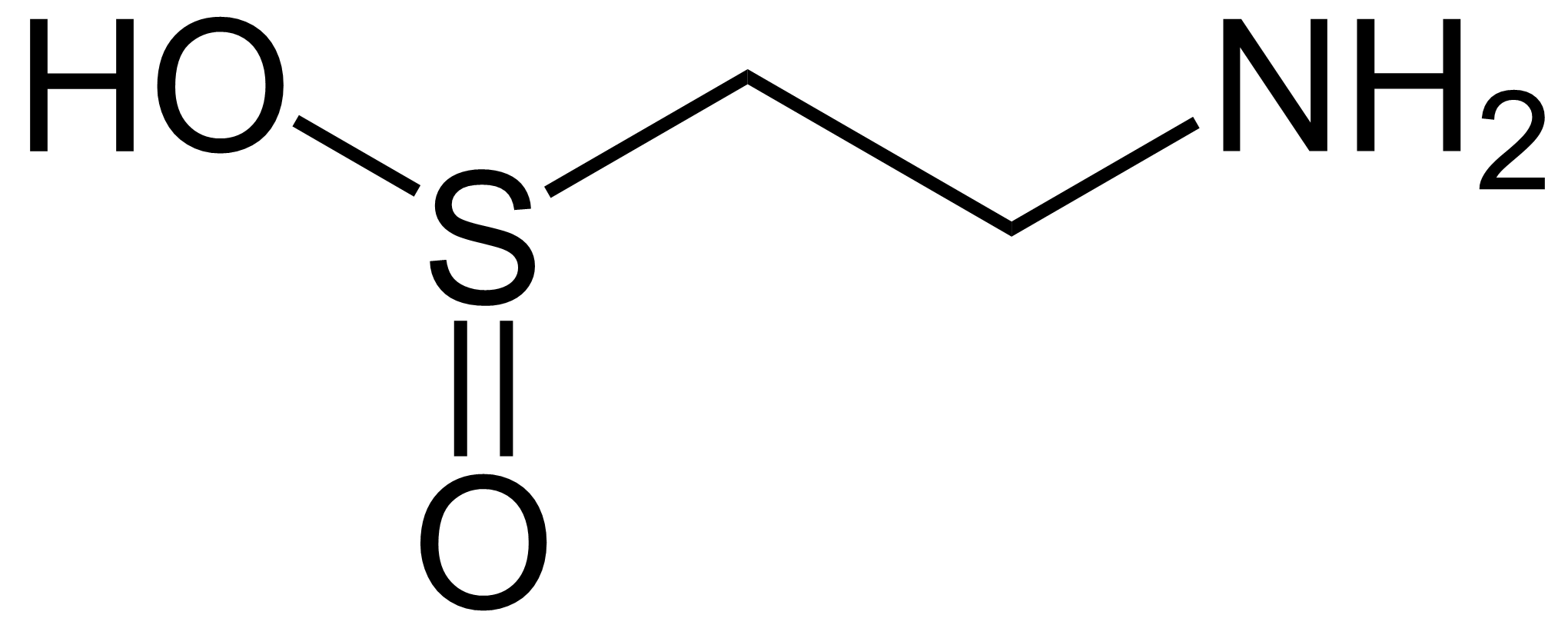 Structure of hypotaurine